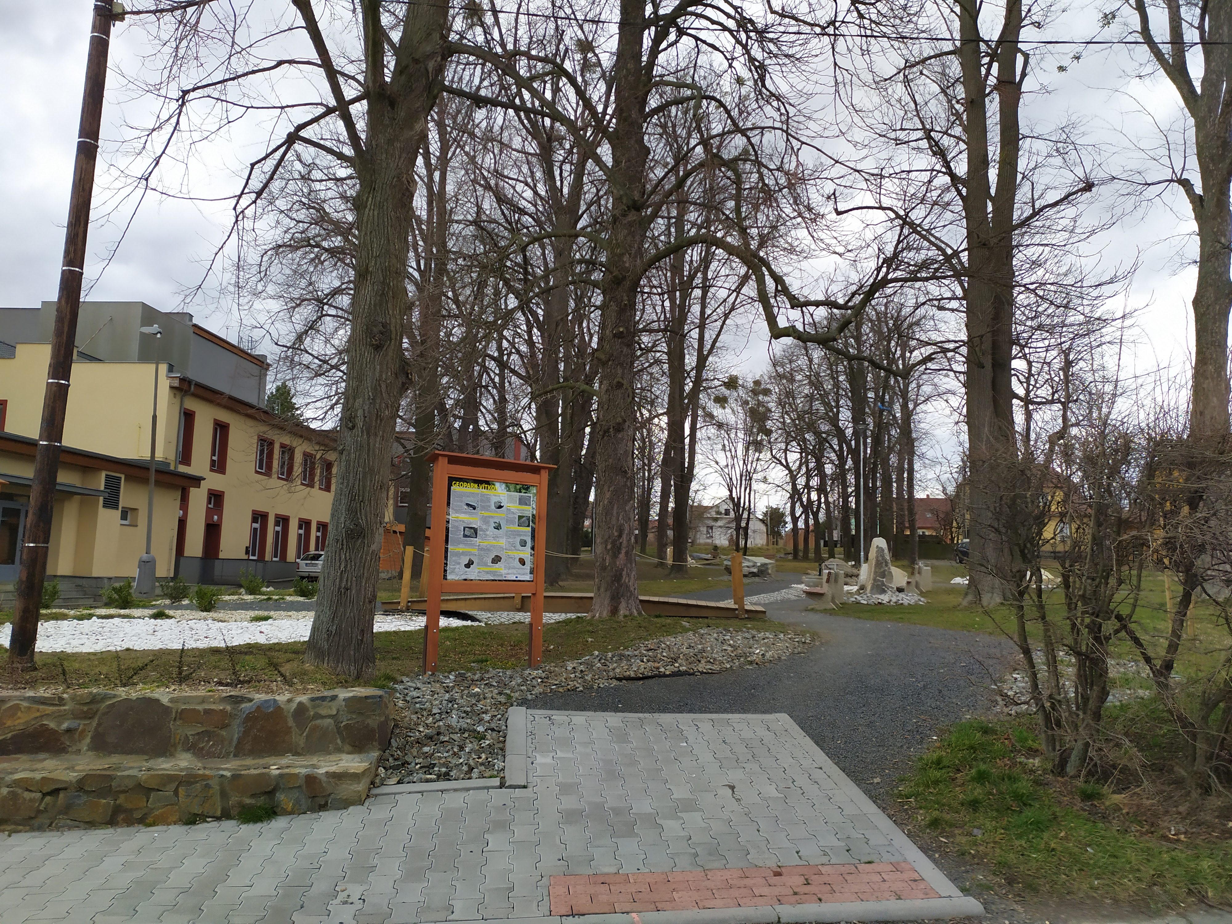 Vítkovská vrchovina